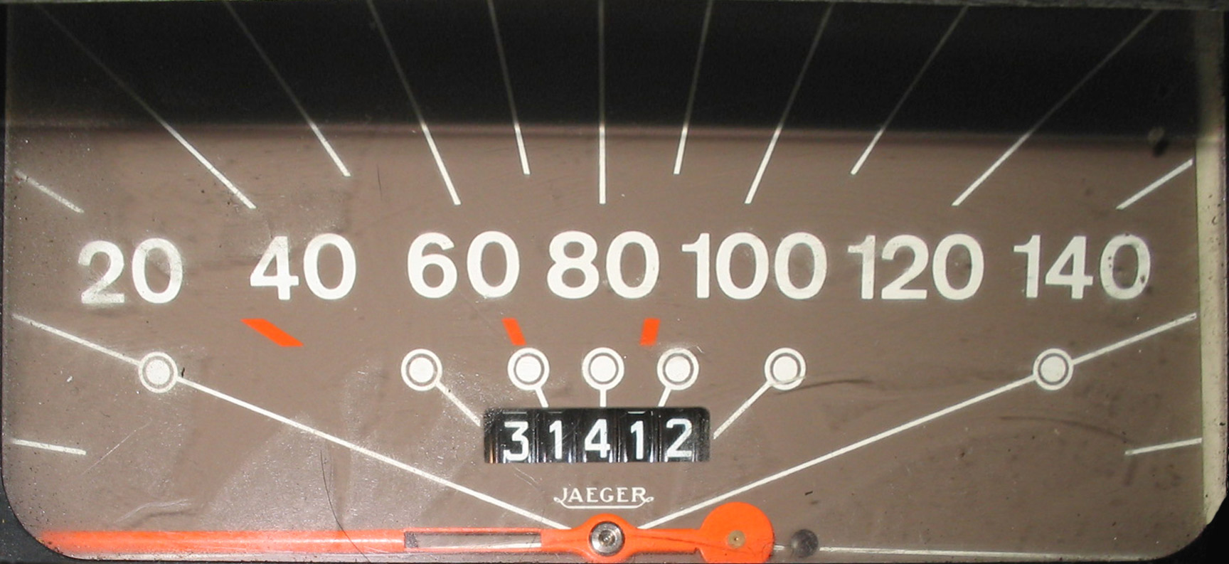 Speedometer/Odometer combination of a Citroën Acadiane, 1986.